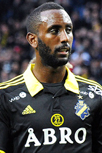 Henok Goitom, AIK striker.